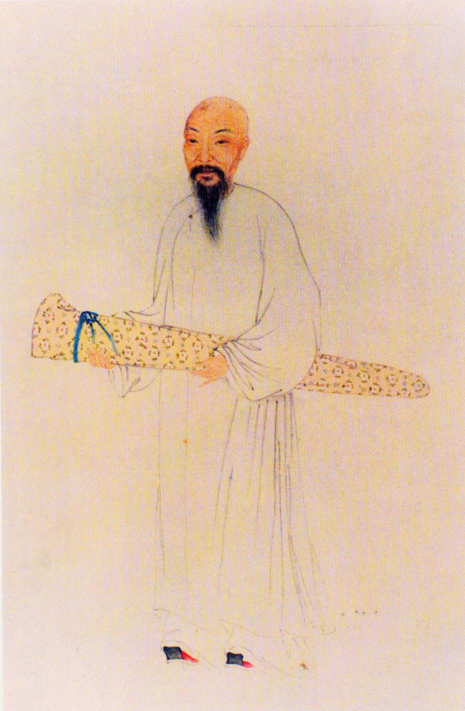 TANG Yifen, politician and poet of the Qing Dynasty.